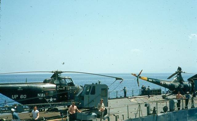 LST-735 with Sikorsky HO3S and HO4S helicopters of Helicopter Utility Squadron 1 (HU-1) "Pacific Fleet Angels" on deck off Wonson, Korea, circa 1953.